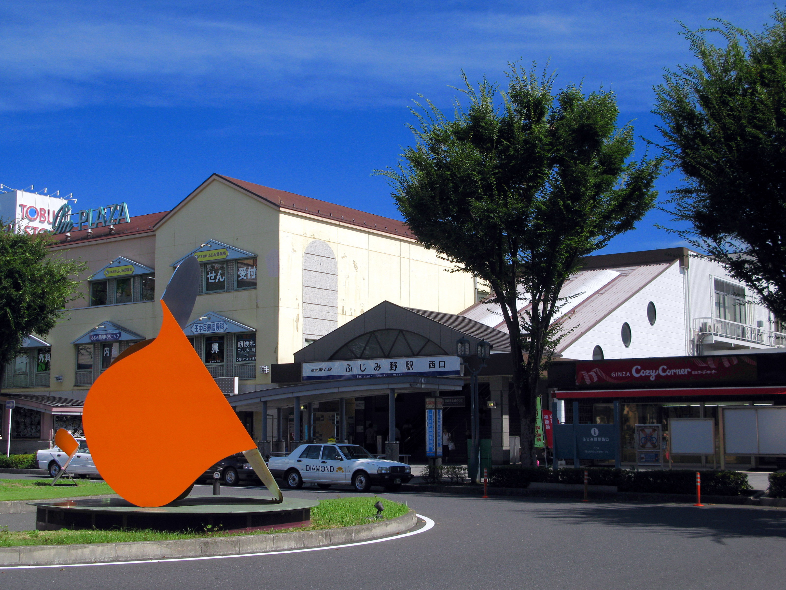 West entrance of Fujimino Station on the Tobu Tojo Line